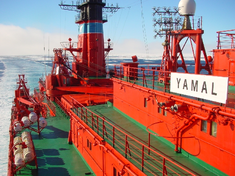 Russian nuclear icebreaker Yamal